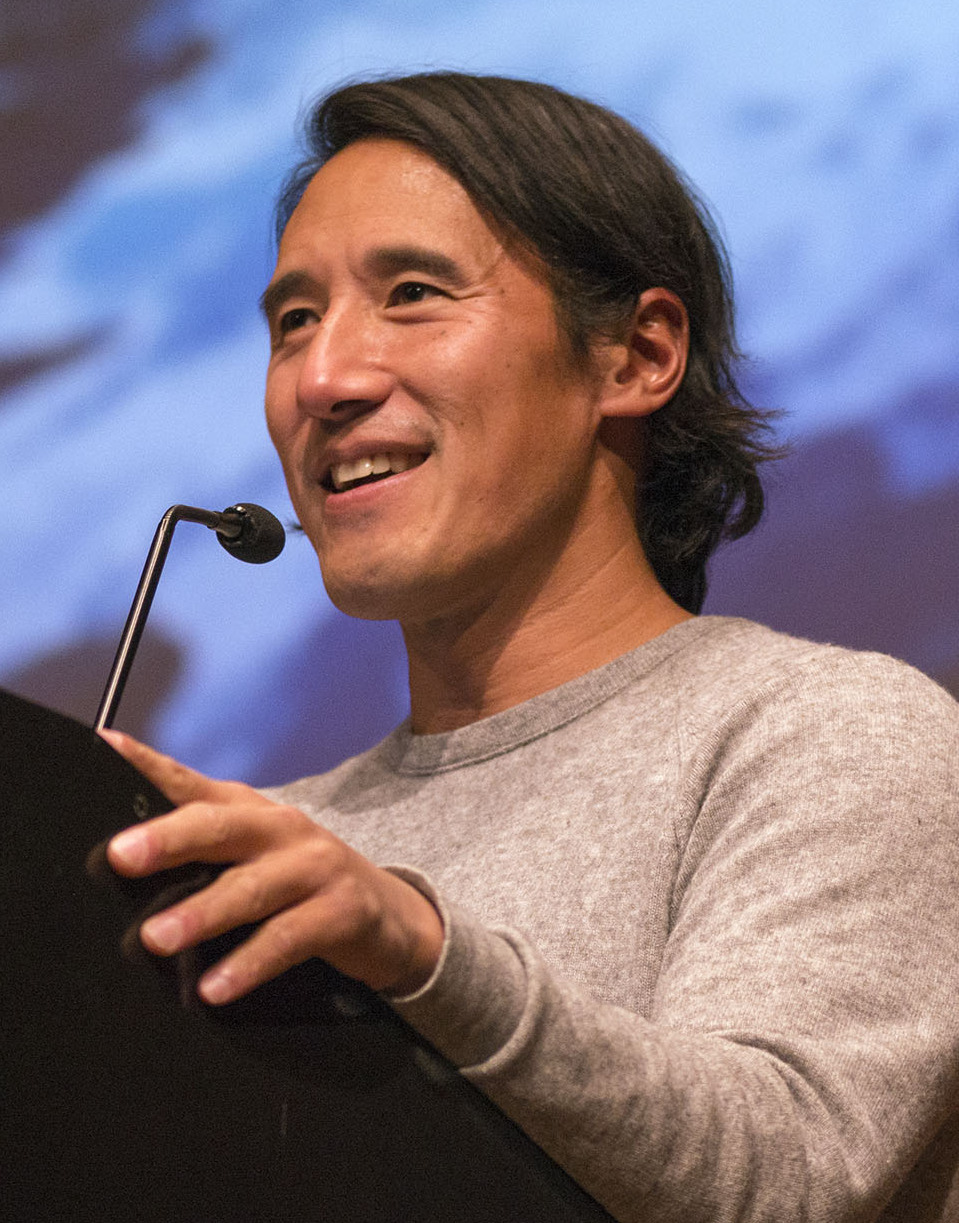 Jimmy Chin Spoke at University of Michigan